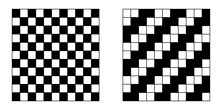 two types of fabric - linen and serge